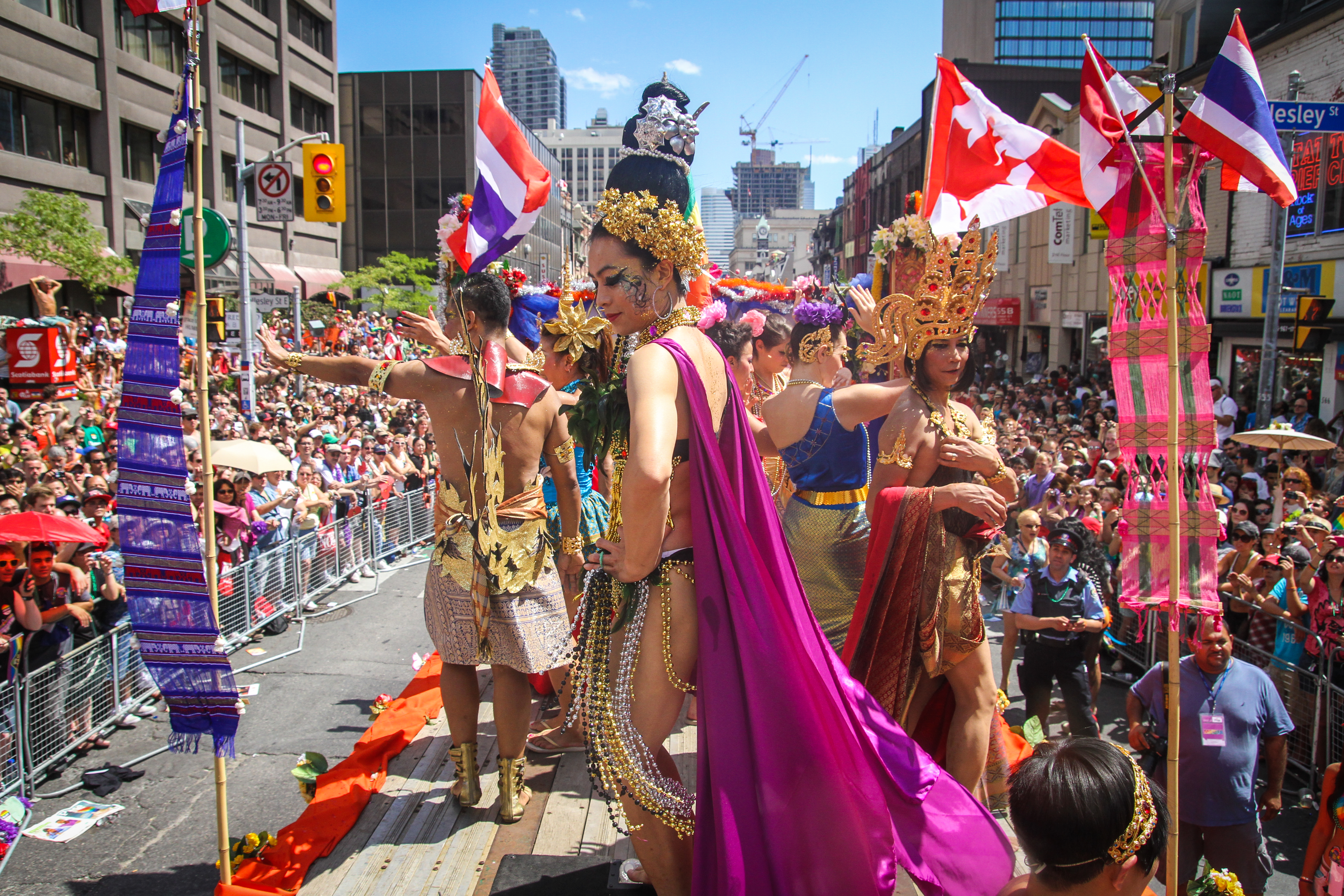 Location: Toronto, CanadaEvent type: Pride ParadeDate or year: July 1, 2012